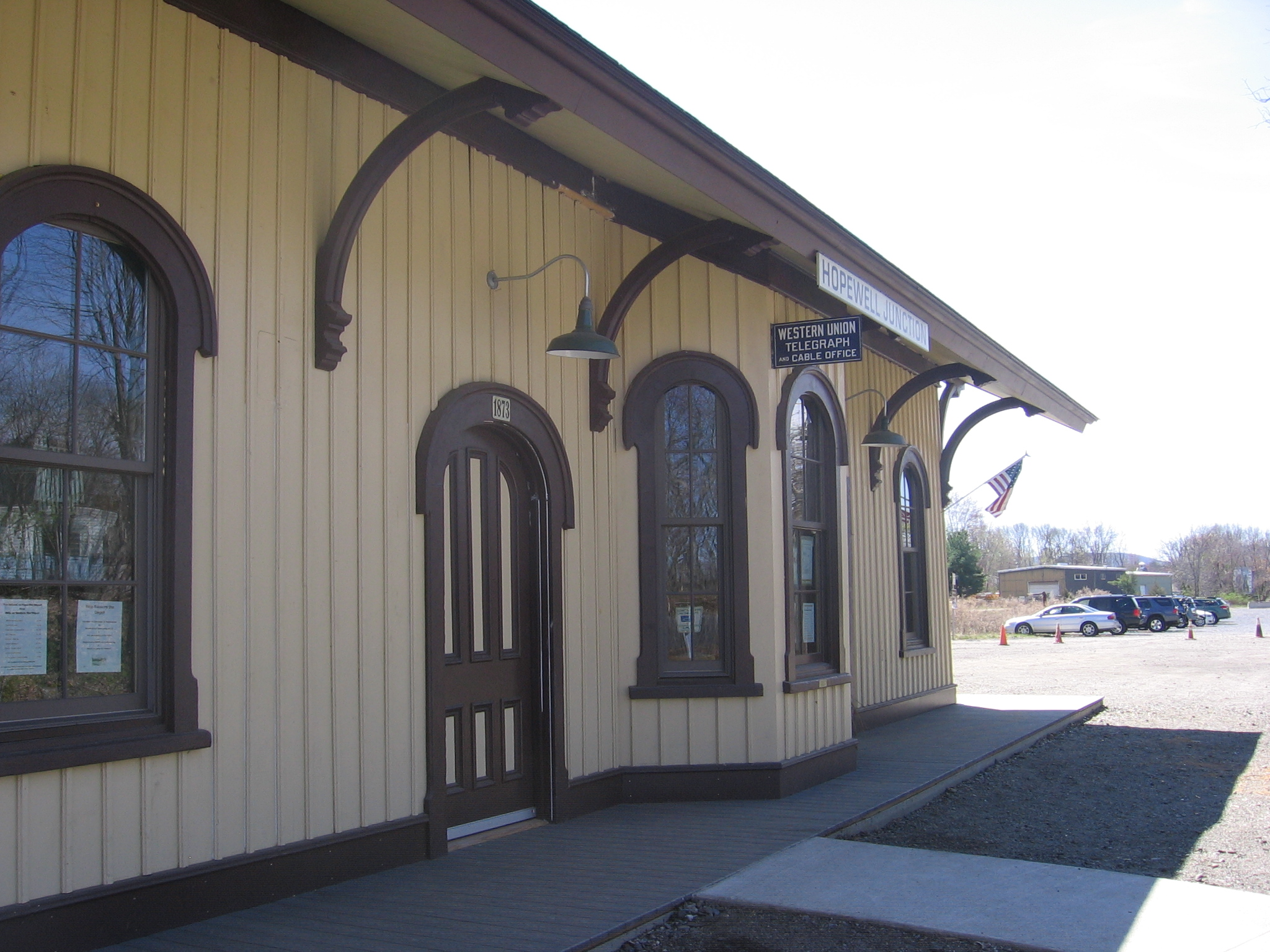 Hopewell Junction Depot along the Dutchess County Rail Trail. The former location of the depot was just beyond the cars in the parking lot.